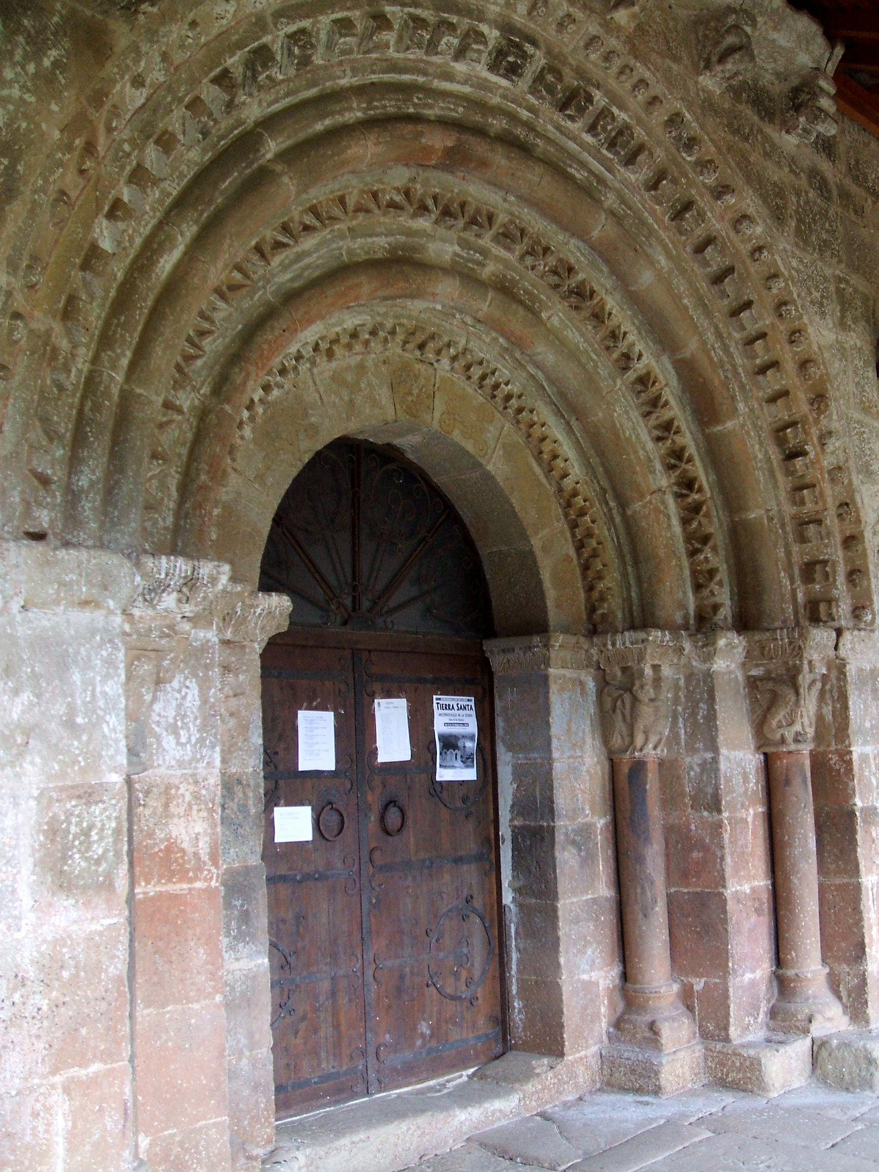 Iglesia románica de Nuestra Señora de la Asunción, en Jaramillo de la Fuente (Burgos, Castilla y León, España)